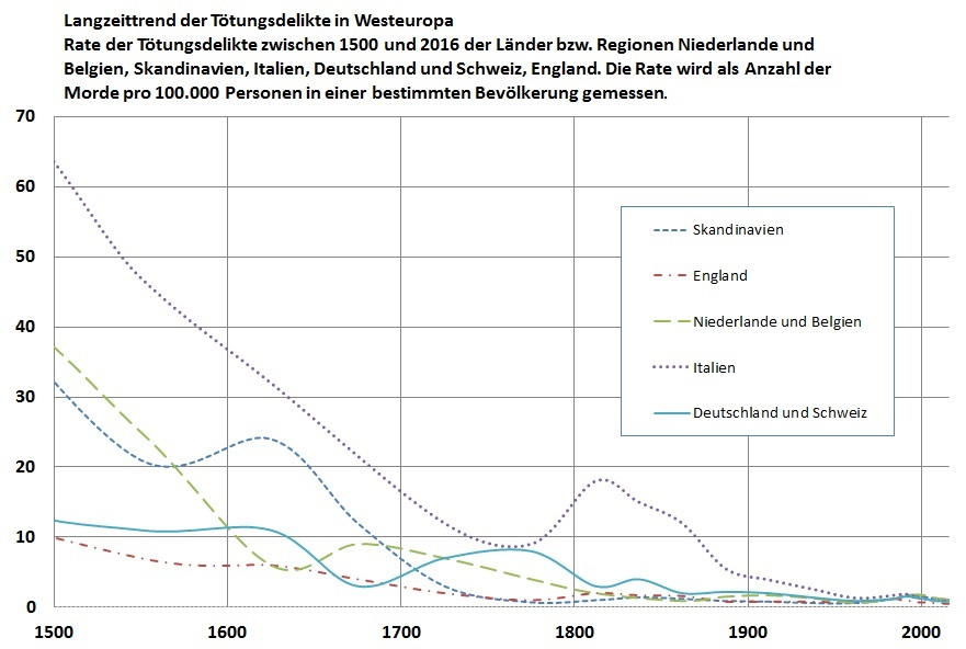 Long-term homicide rates across Western Europe; data taken from